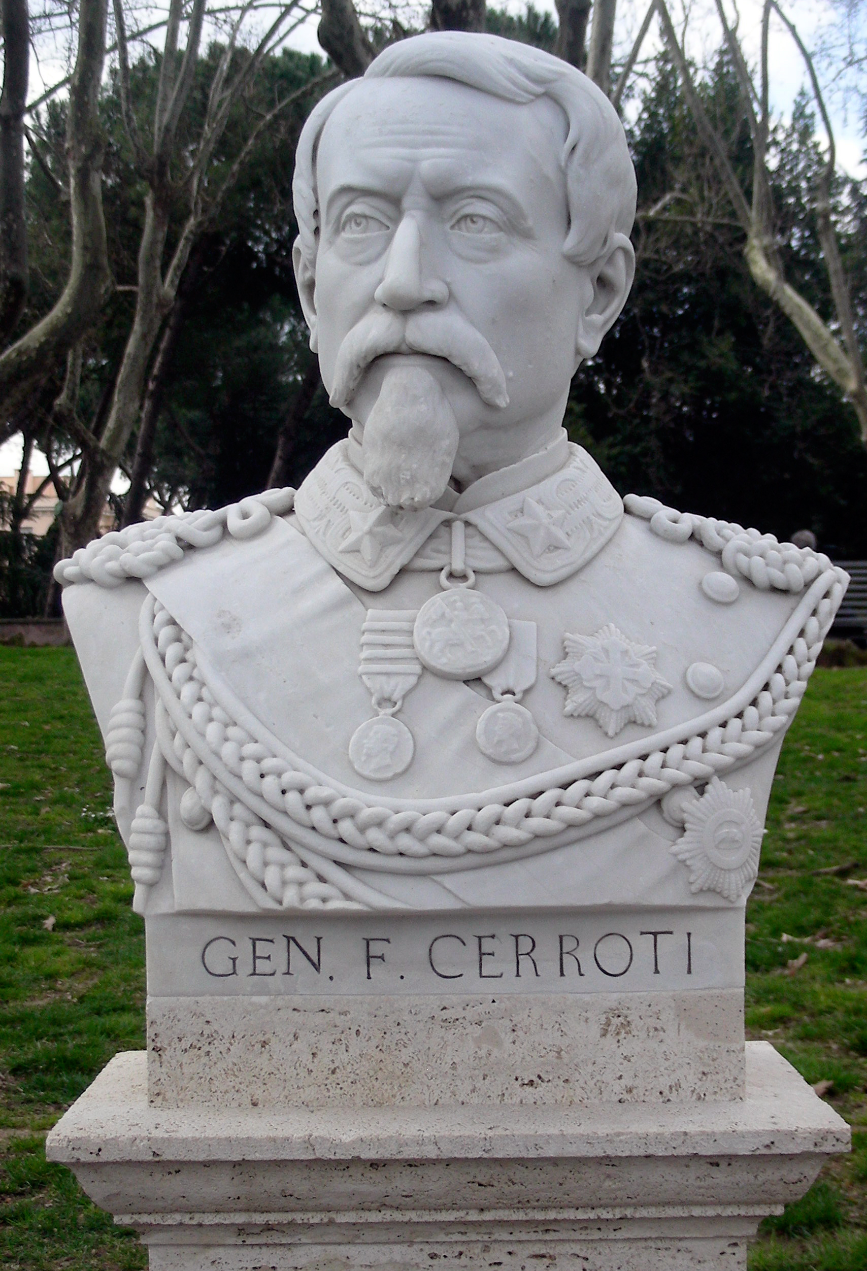 Rome, park of Gianicolo, bust of Filippo Cerroti (1819-1892), by G. Senesi, 1903